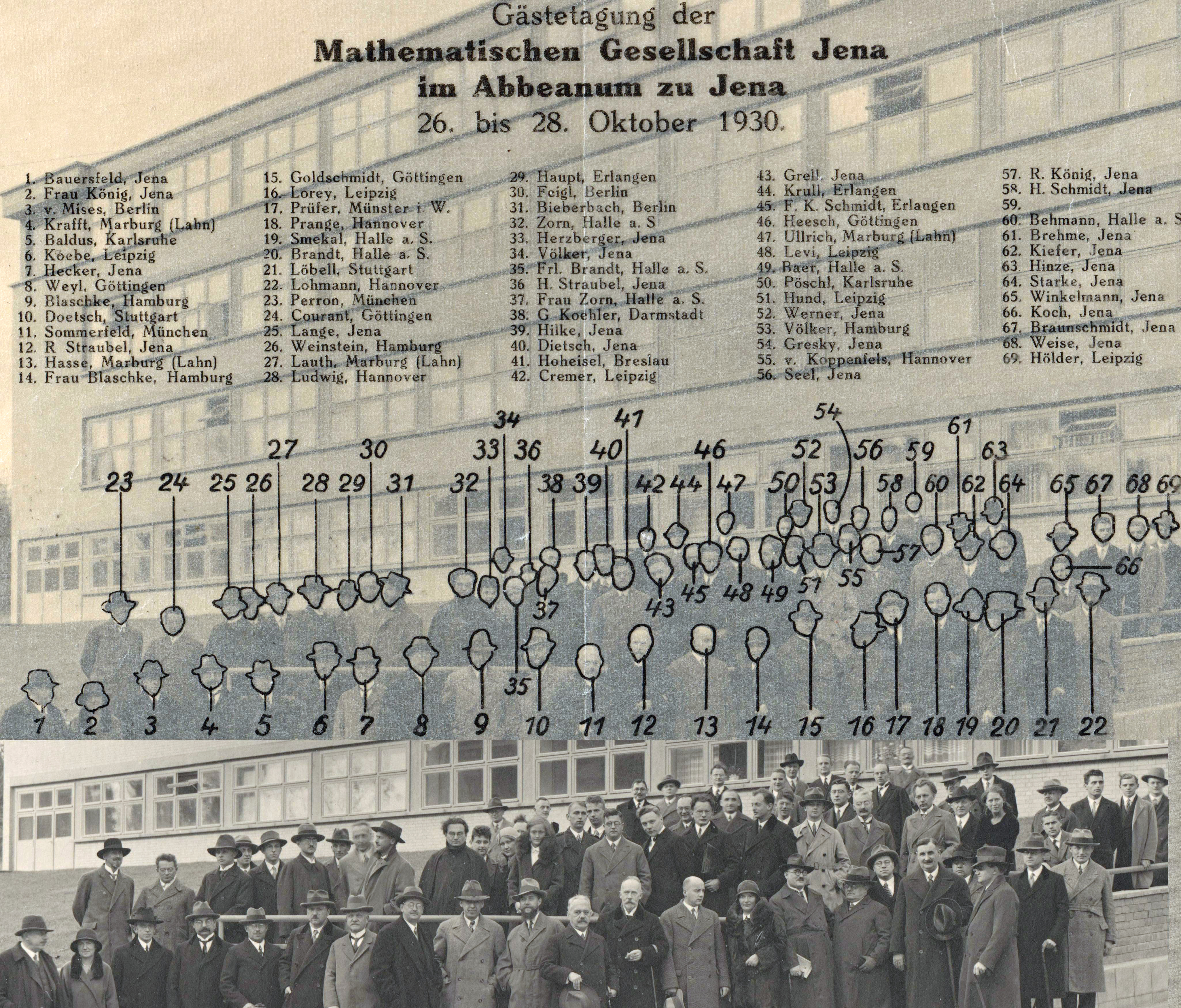 Mathematical Society Jena, visitors' conference at Abbeanum in Jena, 26th until 28th October 1930. Depicted persons: 1. Bauersfeld, Jena — 2. Mrs. König, Jena — 3. v. Mises, Berlin — 4. Krafft,(de) Marburg (Lahn) — 5. Baldus,(de) Karlsruhe — 6. Koebe, Leipzig — 7. Hecker, Jena — 8. Weyl, Göttingen — 9. Blaschke, Hamburg — 10. Doetsch, Stuttgart — 11. Sommerfeld, Munich — 12. R. Straubel, Jena — 13. Hasse, Marburg (Lahn) — 14. Mrs. Blaschke, Hamburg — / — 15. Goldschmidt, Göttingen — 16. Lorey, Leipzig — 17. Prüfer, Münster i. W. — 18. Prange,(de) Hannover — 19. Smekal, Halle a. S. — 20. Brandt, Halle a. S. — 21. Löbell,(de) Stuttgart — 22. Lohmann, Hannover — 23. Perron, Munich — 24. Courant, Göttingen — 25. Lange, Jena — 26. Weinstein, Hamburg — 27. Lauth, Marburg (Lahn) — 28. Ludwig,(de) Hannover — / — 29. Haupt, Erlangen — 30. Feigl, Berlin — 31. Bieberbach, Berlin — 32. Zorn, Halle a. S. — 33. Herzberger, Jena — 34. Völker, Jena — 35. Miss. Brandt, Halle a. S. — 36. H. Straubel, Jena — 37. Mrs. Zorn, Halle a. S. — 38. G. Koehler, Darmstadt — 39. Hilke, Jena — 40. Dietsch, Jena — 41. Hoheisel, Breslau — 42. Cremer,(de) Leipzig — / — 43. Grell,(de) Jena — 44. Krull, Erlangen — 45. F.K. Schmidt,(de) Erlangen — 46. Heesch, Göttingen — 47. Ullrich,(de) Marburg (Lahn) — 48. Levi, Leipzig — 49. Baer, Halle a. S. — 50. Pöschl,(de) Karlsruhe — 51. Hund, Leipzig — 52. Werner, Jena — 53. Völker, Hamburg — 54. Gresky, Jena — 55. v. Koppenfels, Hannover — 56. Seel, Jena — / — 57. R. König, Jena — 58. H. Schmidt,(de) Jena — 59. — 60. Behmann, Halle a. S. — 61. Brehme, Jena — 62. Kiefer, Jena — 63. Hinze, Jena — 64. Starke, Jena — 65. Winkelmann, Jena — 66. Koch, Jena — 67. Braunschmidt, Jena — 68. Weise,(de) Jena — 69. Hölder, Leipzig